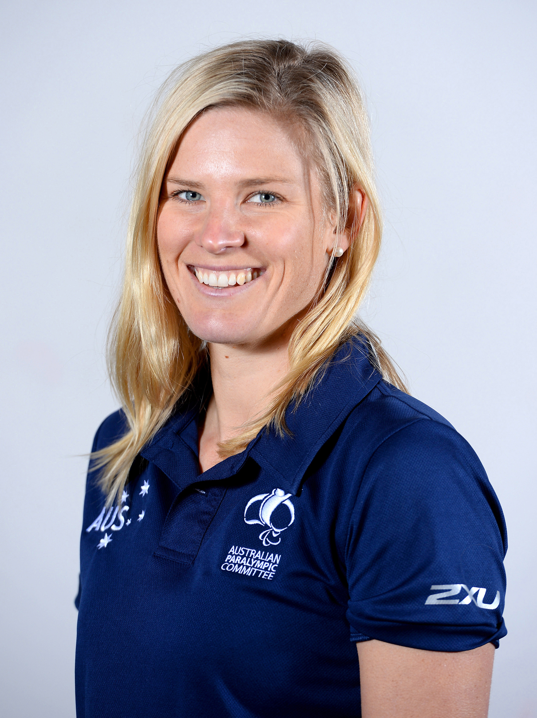 Portrait photograph of Kate Doughty taken at team processing session for shadow members of 2016 Australian Paralympic team